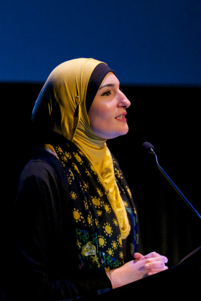 2016 Festival of Faiths "Sacred Wisdom, Pathways to Nonviolence" panel discussion on the theme of Media & the Public Trust. Elna Botha-Boesak, Linda Sarsour, Rajiv Mehrotra, Molly Bingham, and Jonathan Montaldo (moderator).